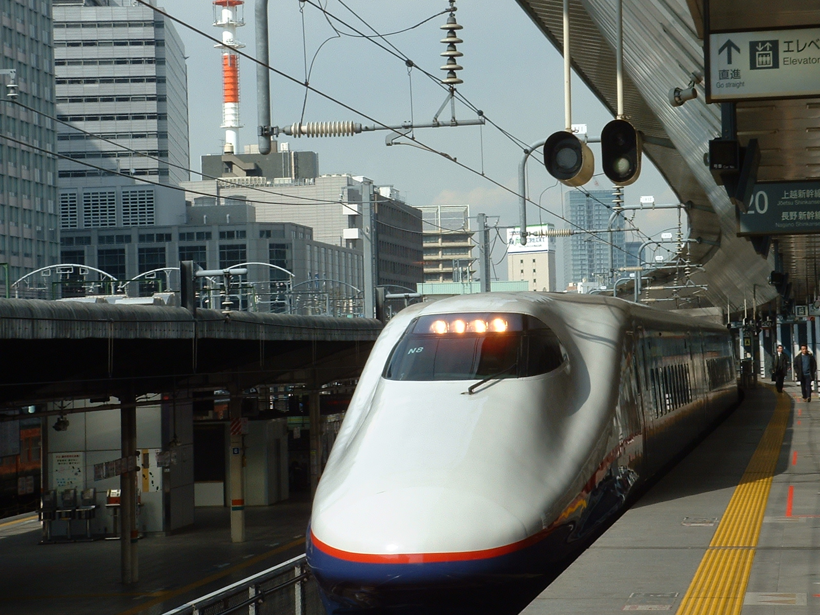 The Asama Shinkansen as seen at Tokyo station